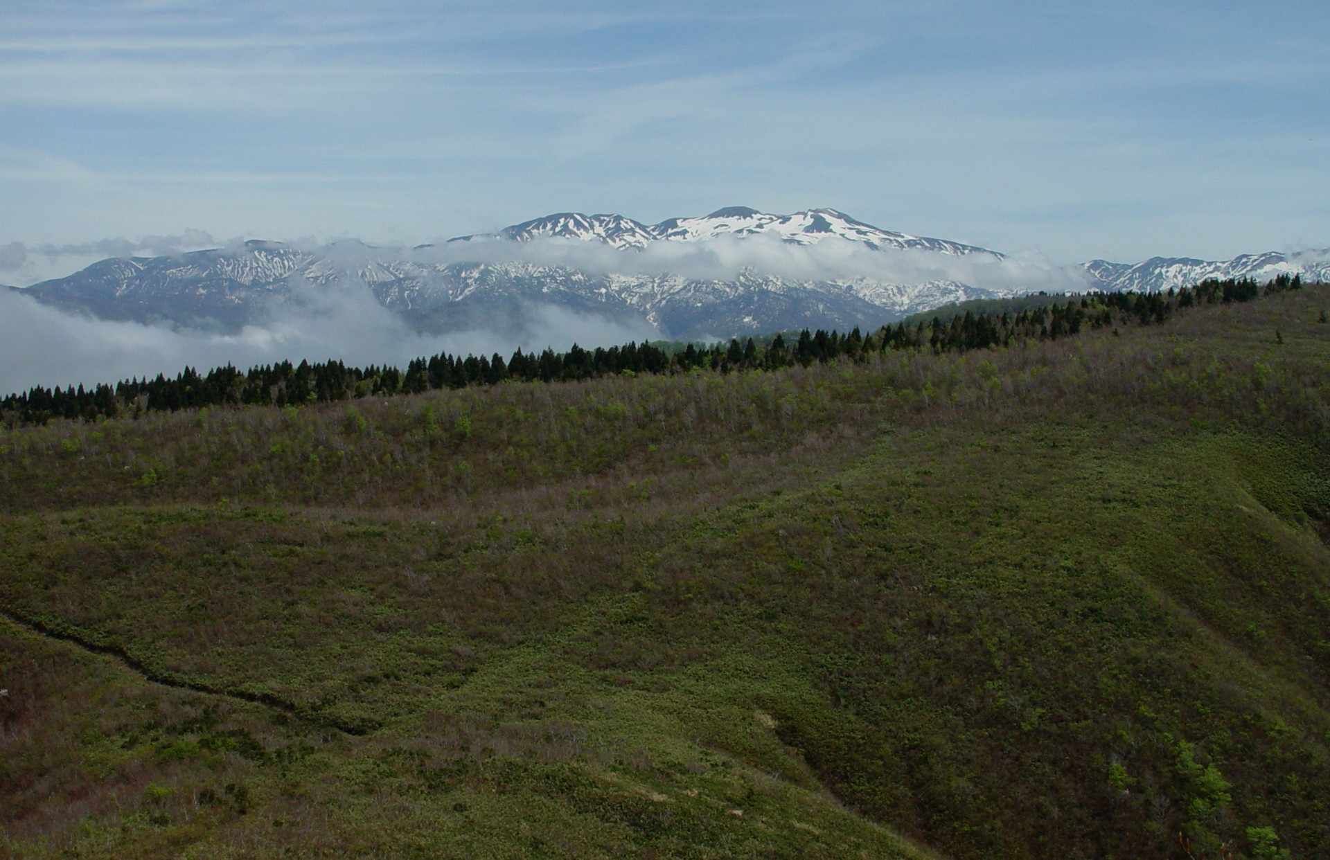 Mount Haku from Mount Toritate